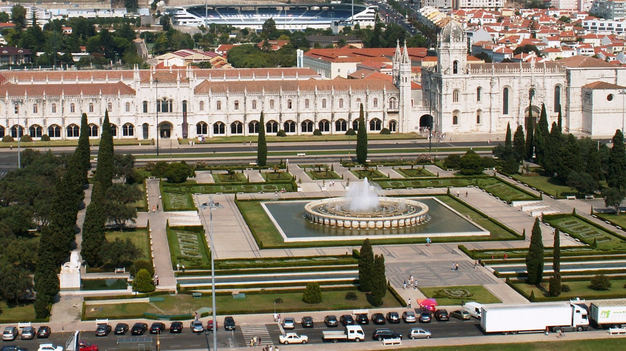 The Empire Square